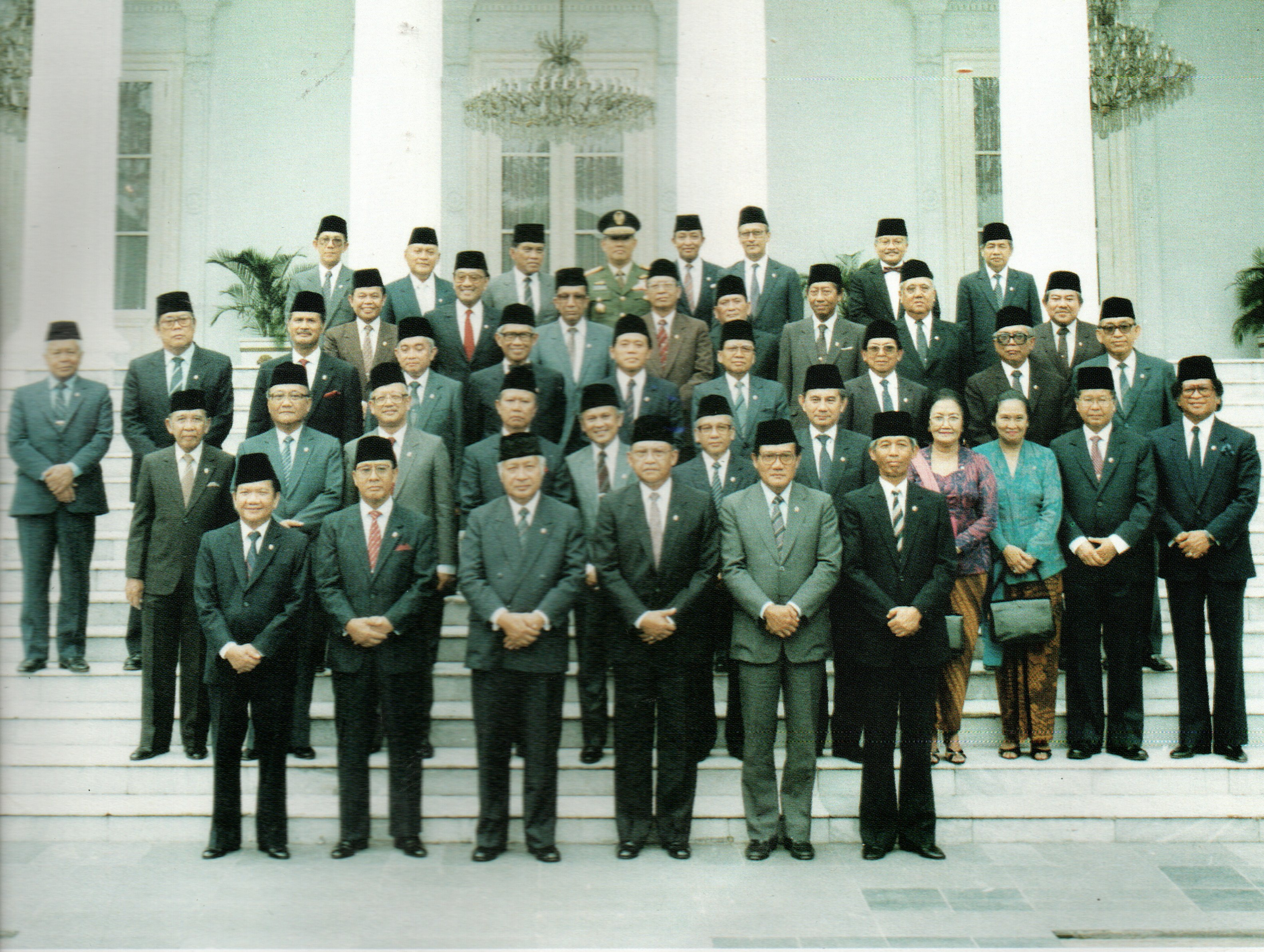 Official photo of the Fourth Development Cabinet.